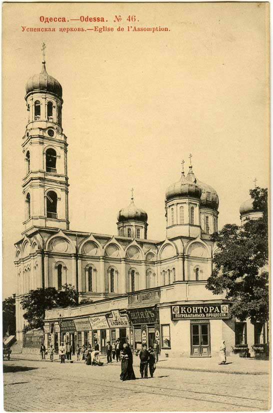 The Church of the Assumption (Dormition). Odessa